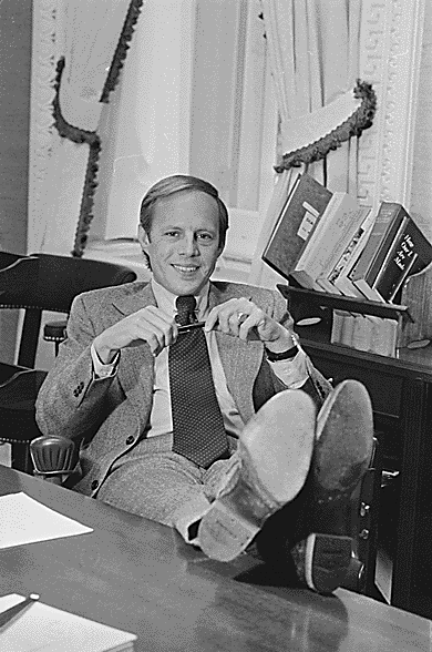 Photo of John W. Dean III, Counsel to President Richard M. Nixon.